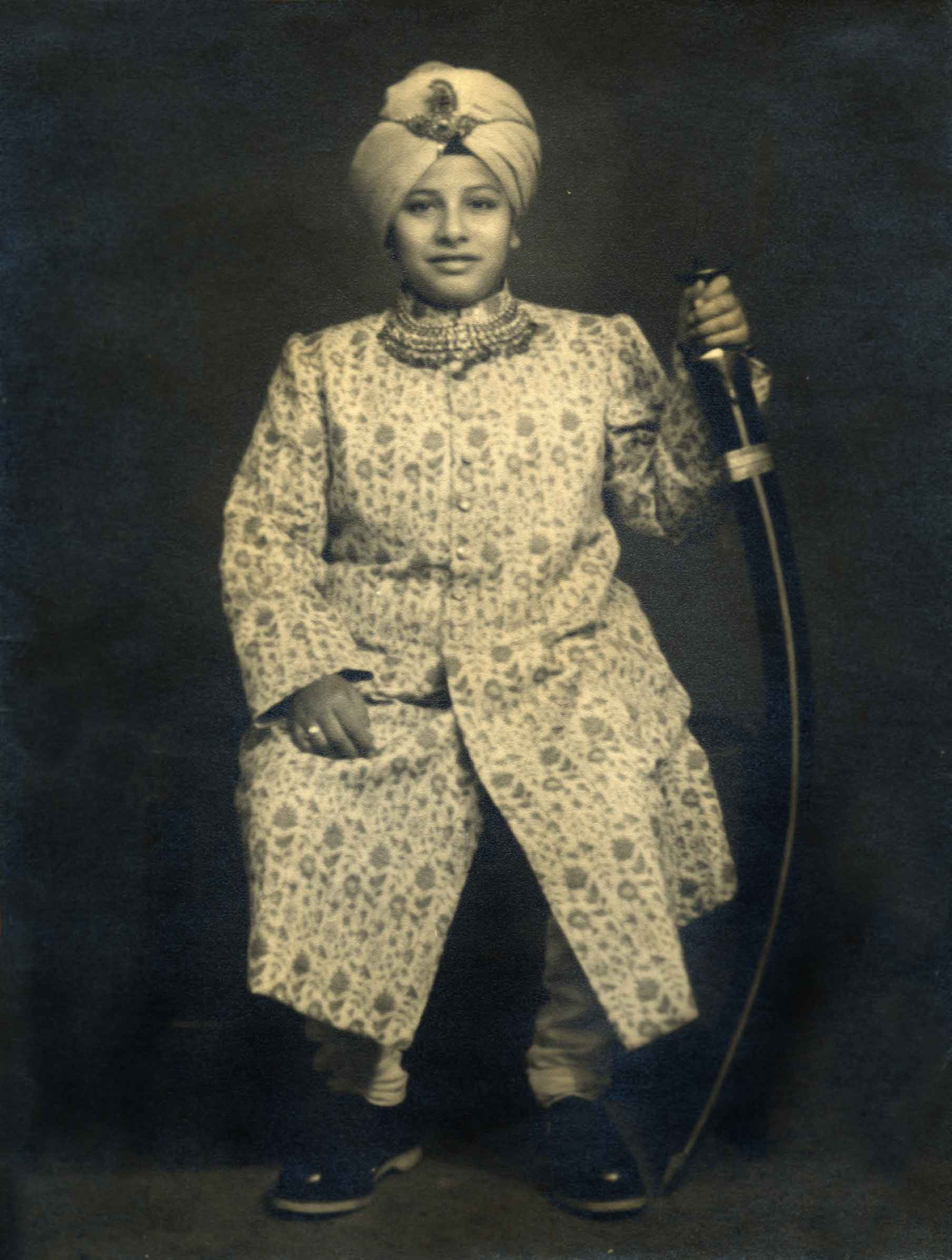 this is a picture of myself as a child owned by me which i have scanned and saved